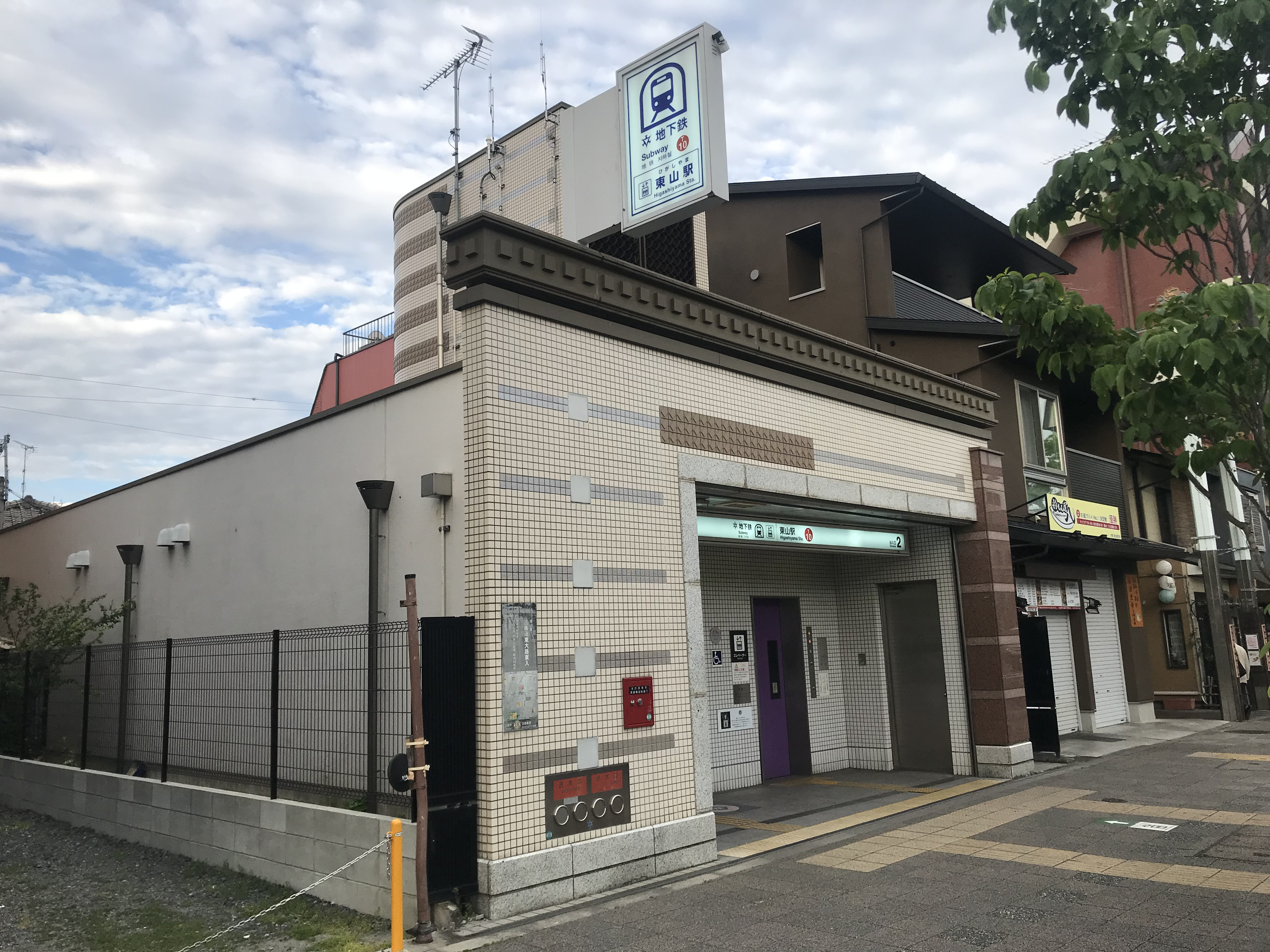 No. 2 exit of Kyoto subway Tozai line Higashiyama station